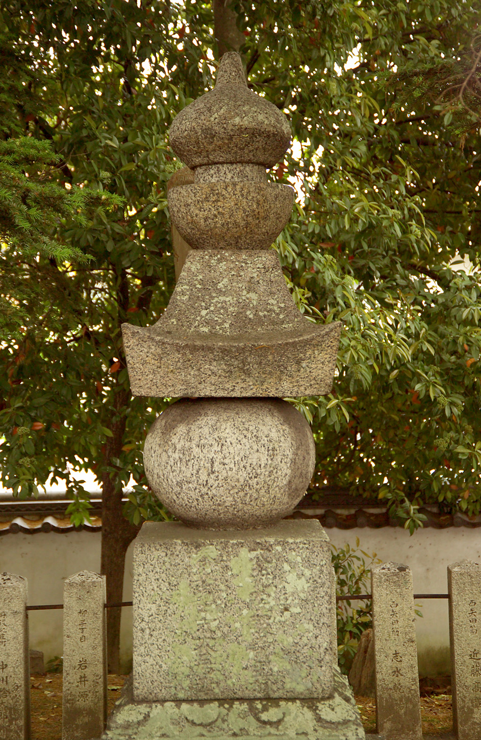 This photograph shows the grave marker of Toyotomi Hidenaga (豊臣秀長) at the Dainagonzuka (大納言塚), Yamatokōriyama, Nara, Japan (奈良県郡山市).